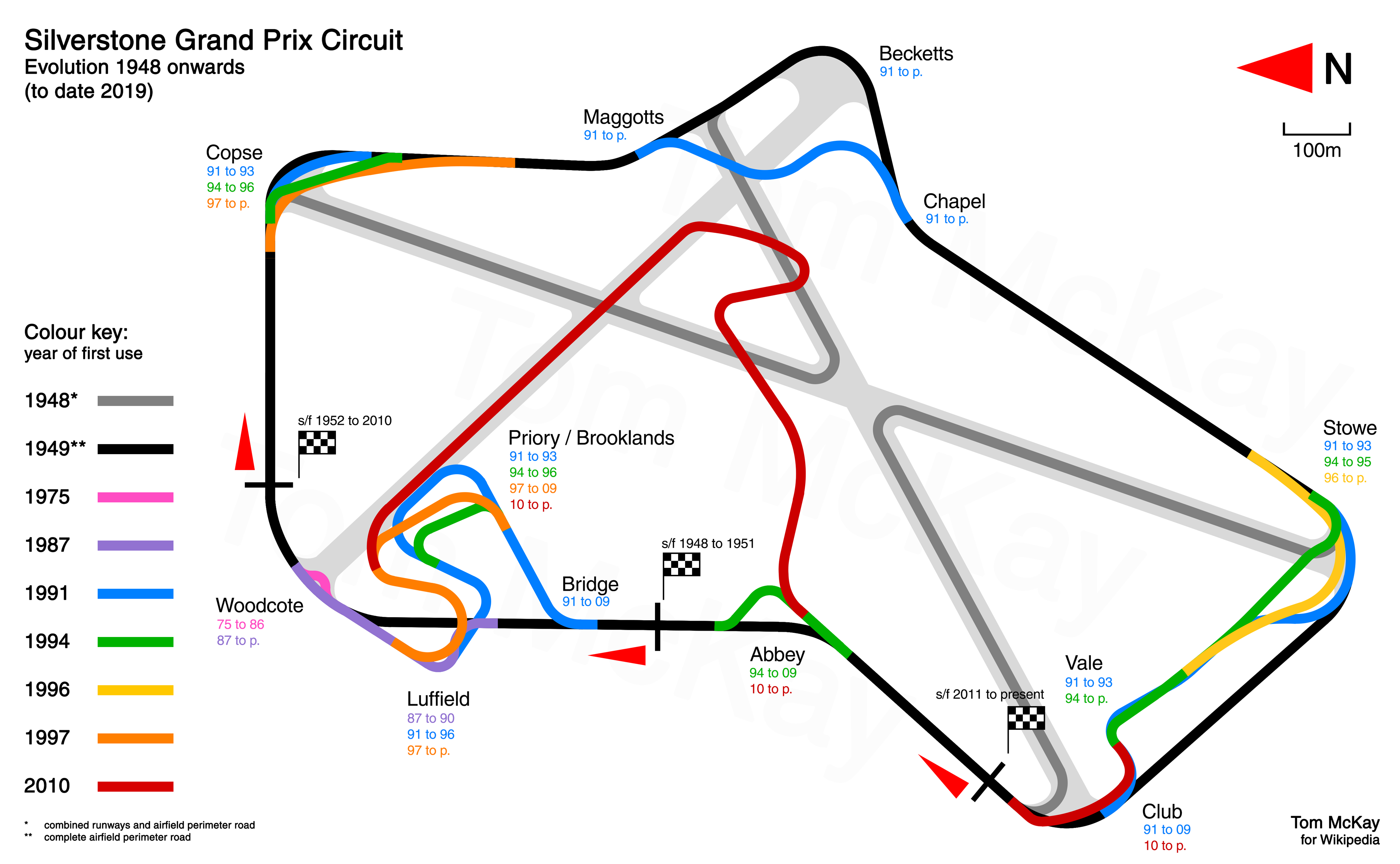 Track diagram of Silverstone Circuit in the UK showing evolution from 1949 to present. Made to scale from aerial photographs.